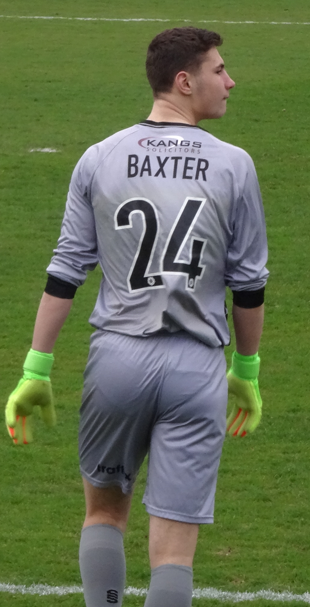 Nathan Baxter playing for Solihull Moors against North Ferriby United at Grange Lane, North Ferriby on 18 March 2017